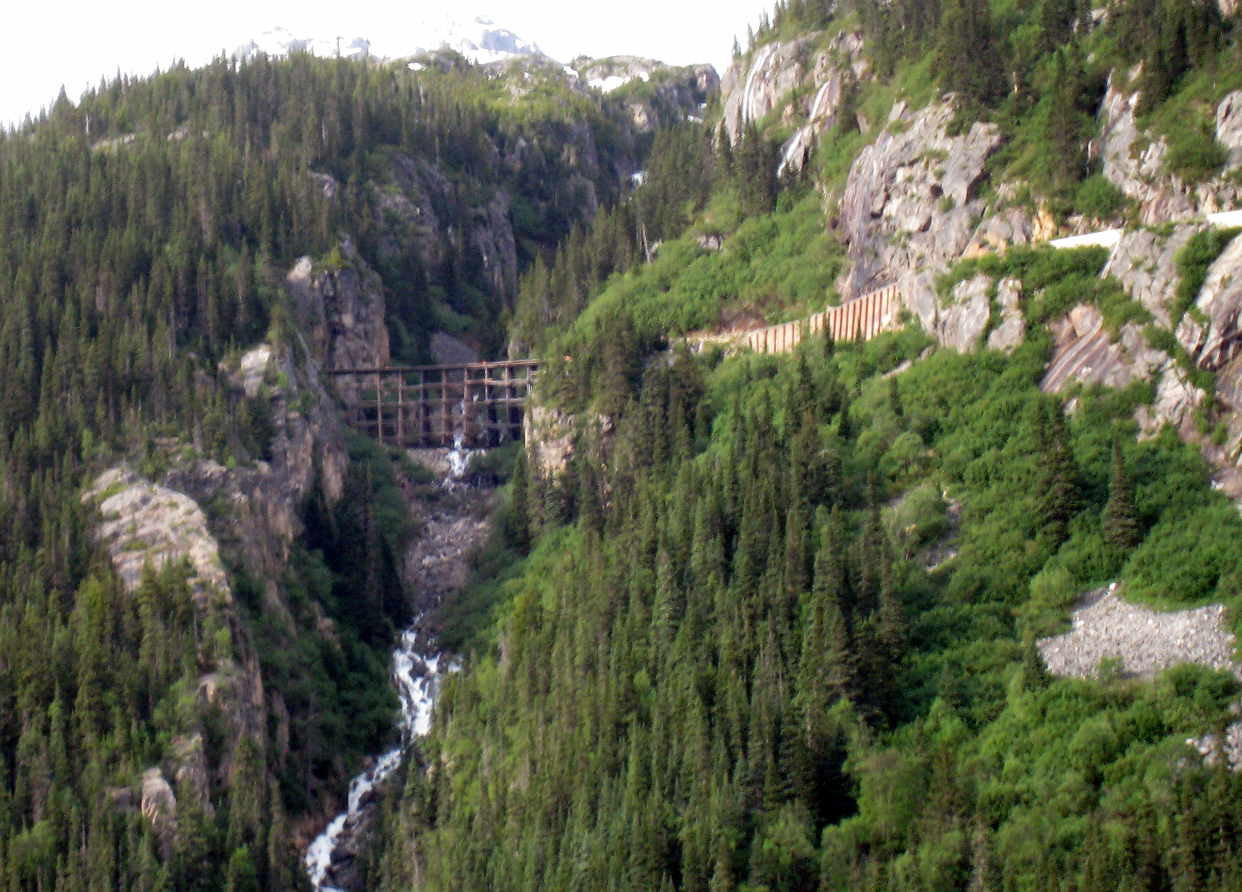 View from the White Pass and Yukon Route railway. Old wooden trestle bridge that the railway no longer uses